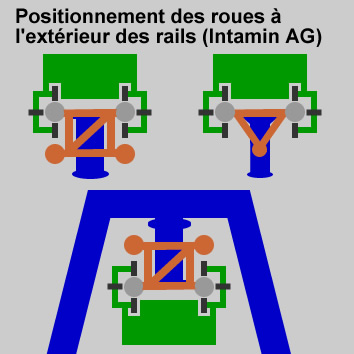 Diagram of the positioning of the wheels outside the rails of an Intamin AG roller coaster. Drawing created by myself, Sam-Pig